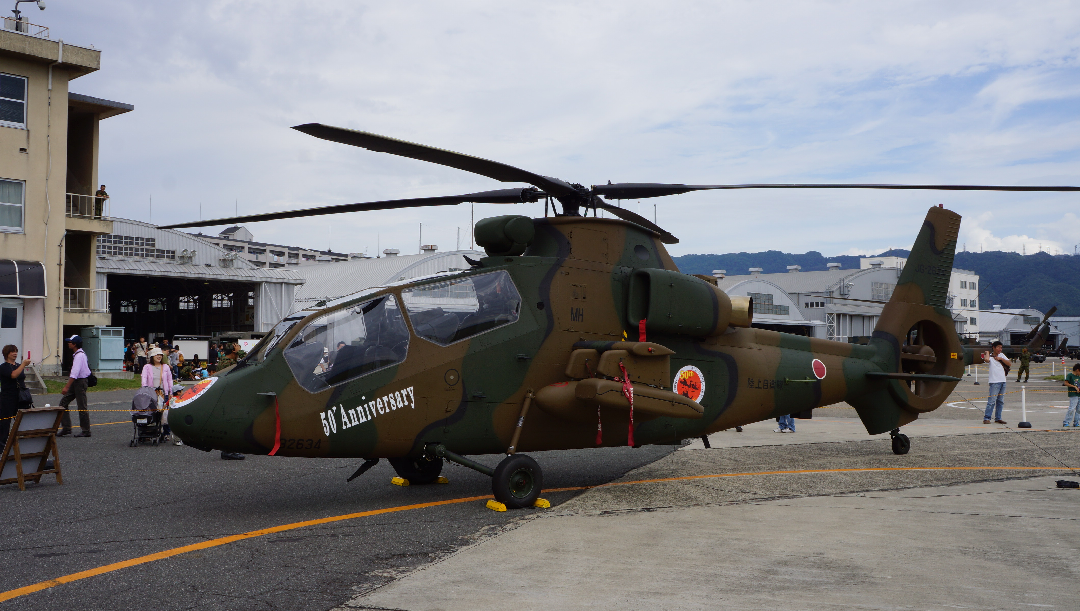 A Kawasaki OH-1 "Ninja" light attack helicopter of the Japanese ground Self-Defense Force at Camp Yao.